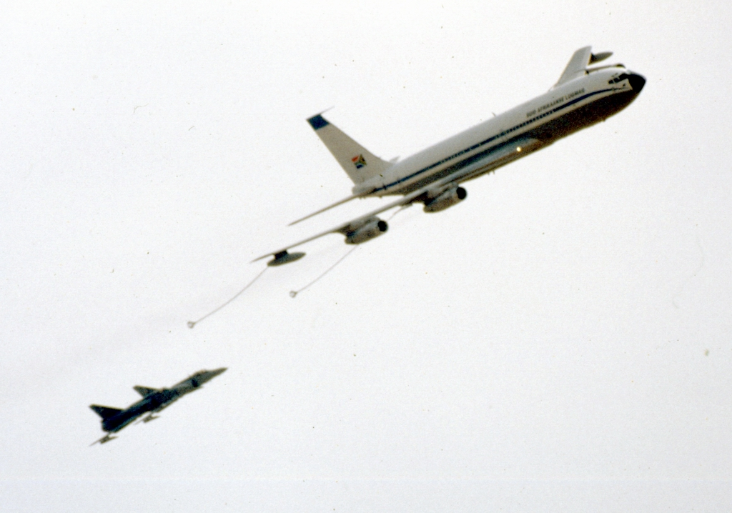 Boeing 707-320G tanker and a pair of Cheetah Cs during SAAF 75 at AFB Waterkloof